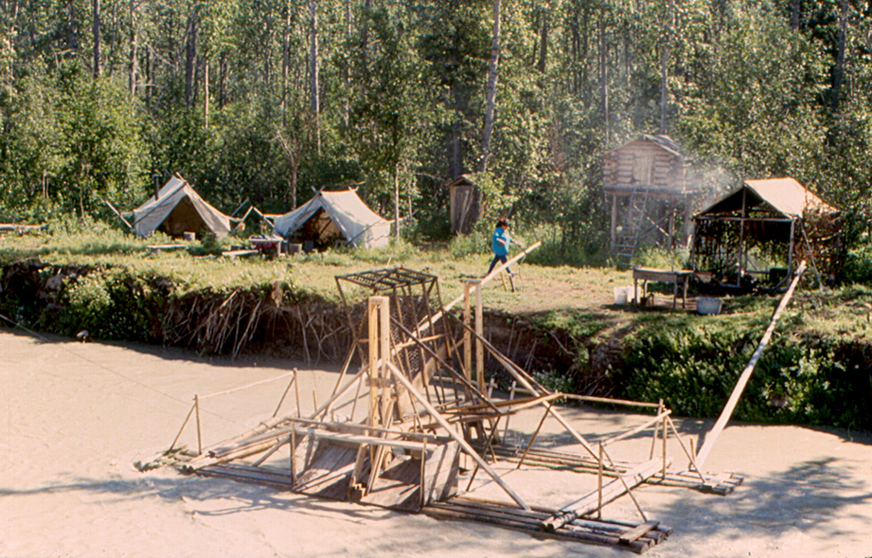 An Athabascan fish camp on the Tanana River, which is fed by glaciers and therefore has a lot of sediment. The device in the foreground is a fish trap. Only Indians are allowed to catch fish this way, according to the guide.